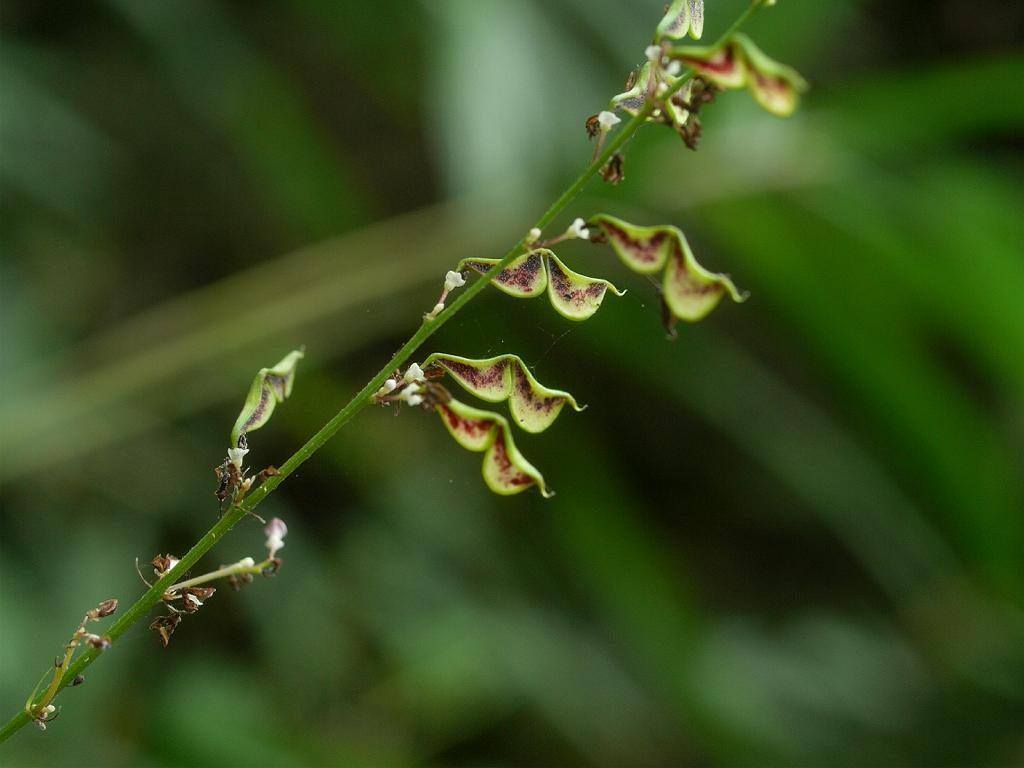 Desmodium podocarpum DC. subsp. oxyphyllum (DC.) H.Ohashi (Fabaceae) :Tanabe city, Wakayama pref. Japan